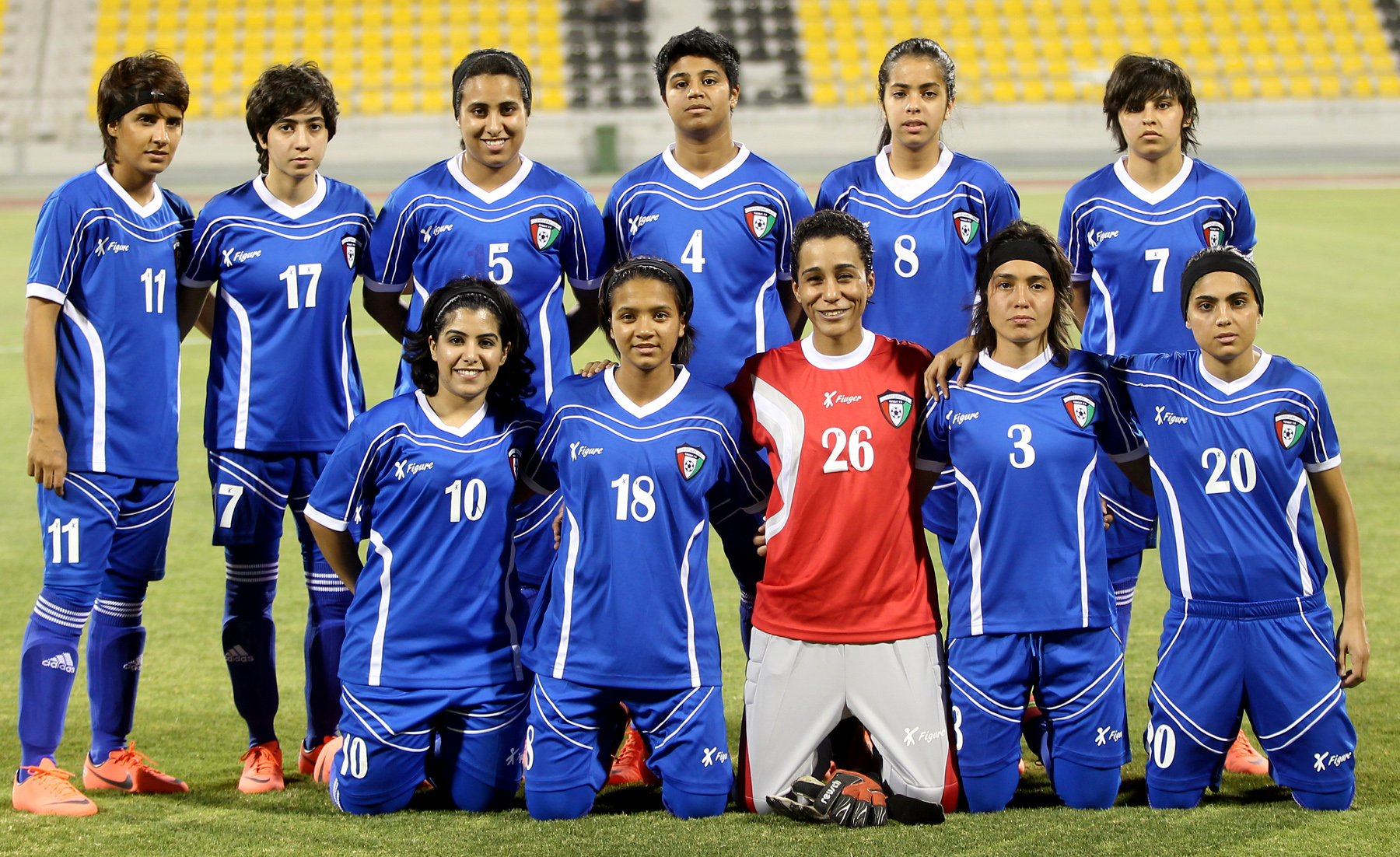 Members of the Kuwait women's football team line up prior to their friendly game against Qatar.